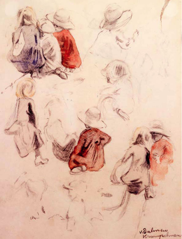 A Sheet of Sketches of Children